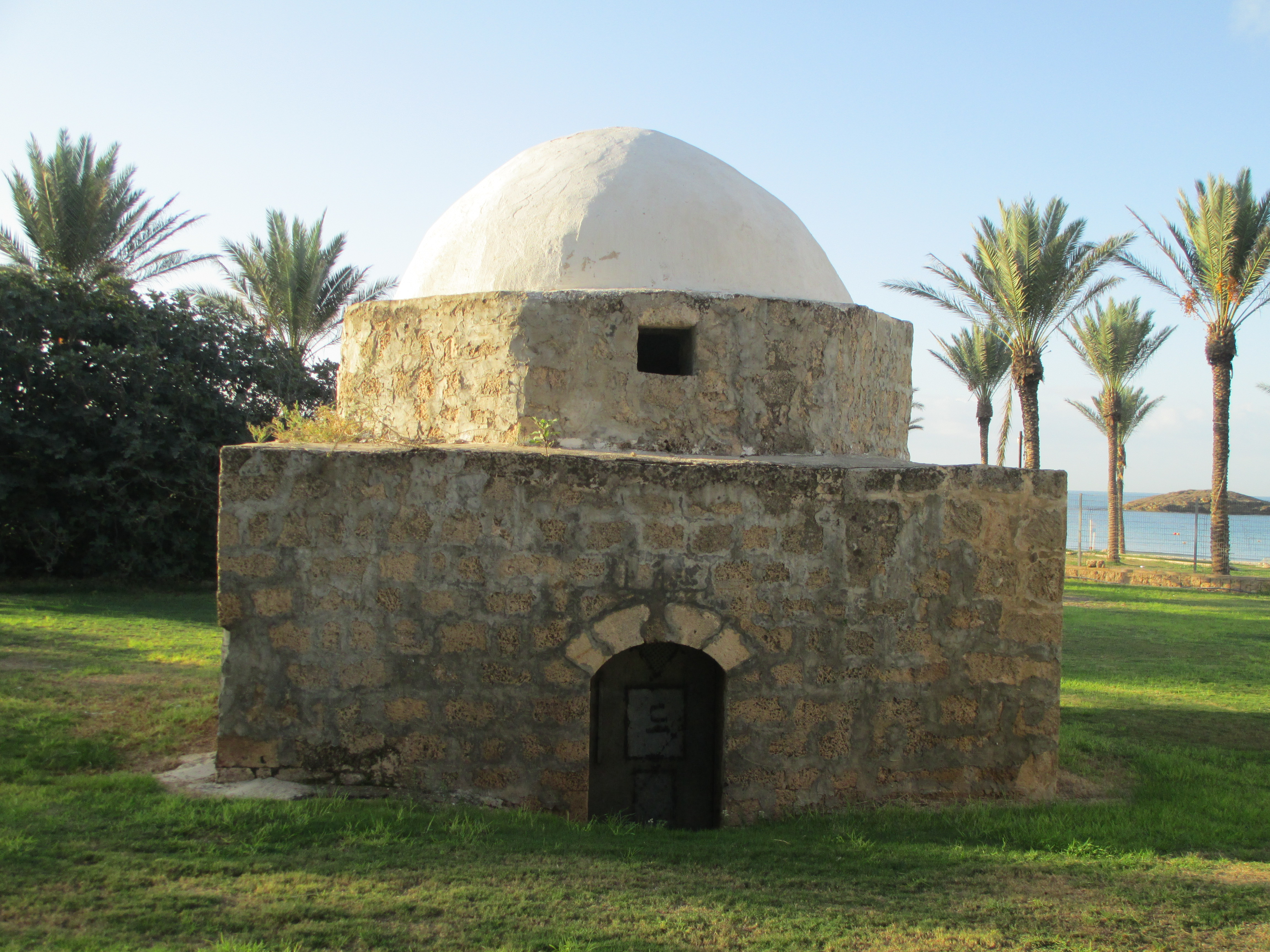 Tantura Sheikh's tomb in Dor resort